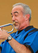 Picture of Kye Palmer playing trumpet, this is unique to his profession and what he does.